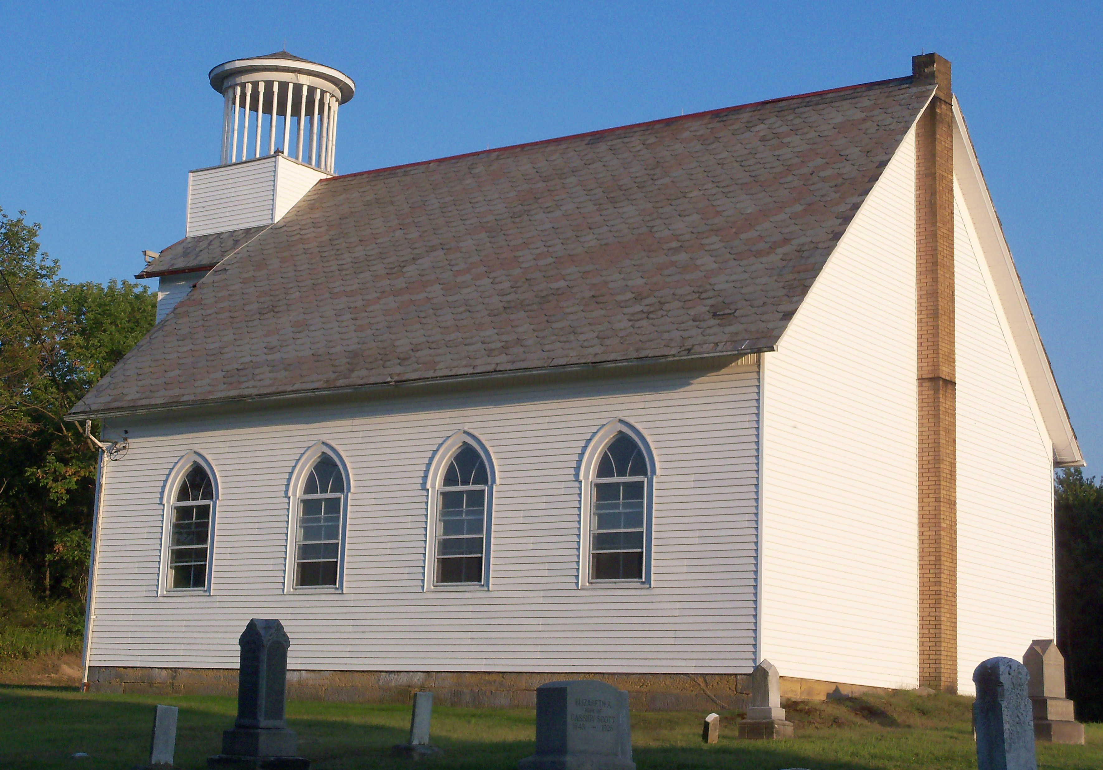 Leavittsville Methodist Episcopal, a 1902 church in Monroe Township, Carroll County, Ohio.